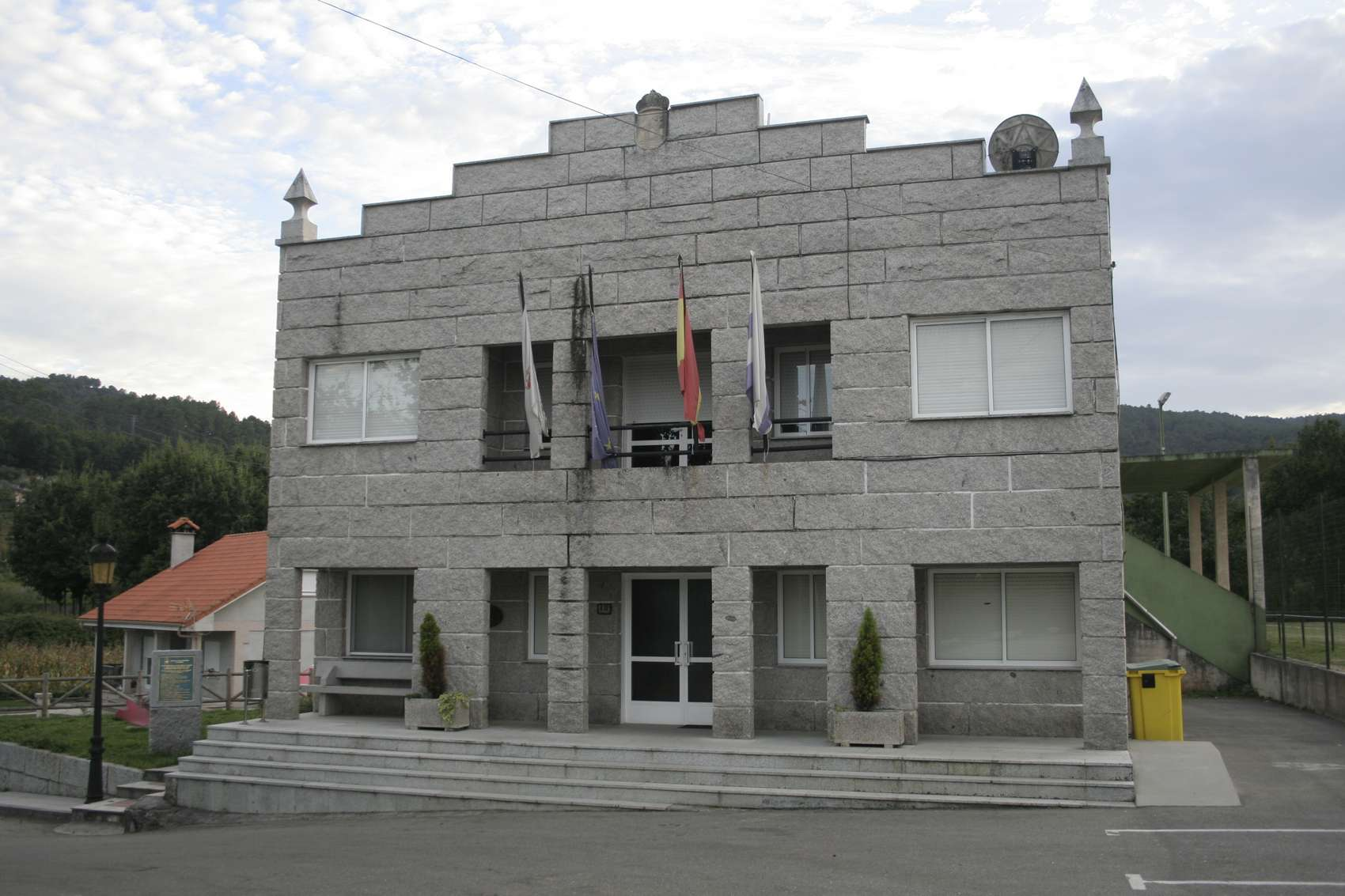 Town Hall in Pontedeva (Spain)